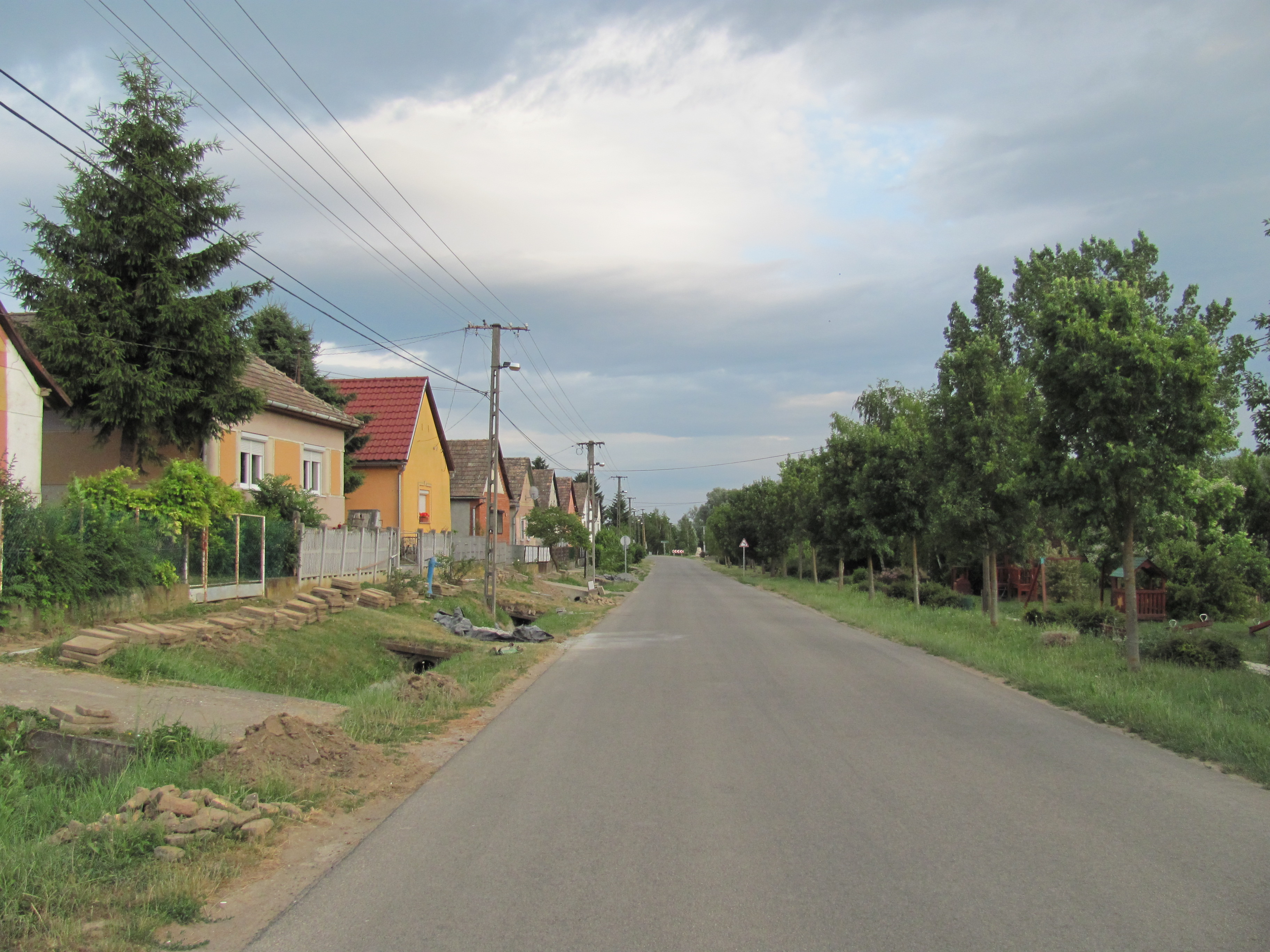 Nak village